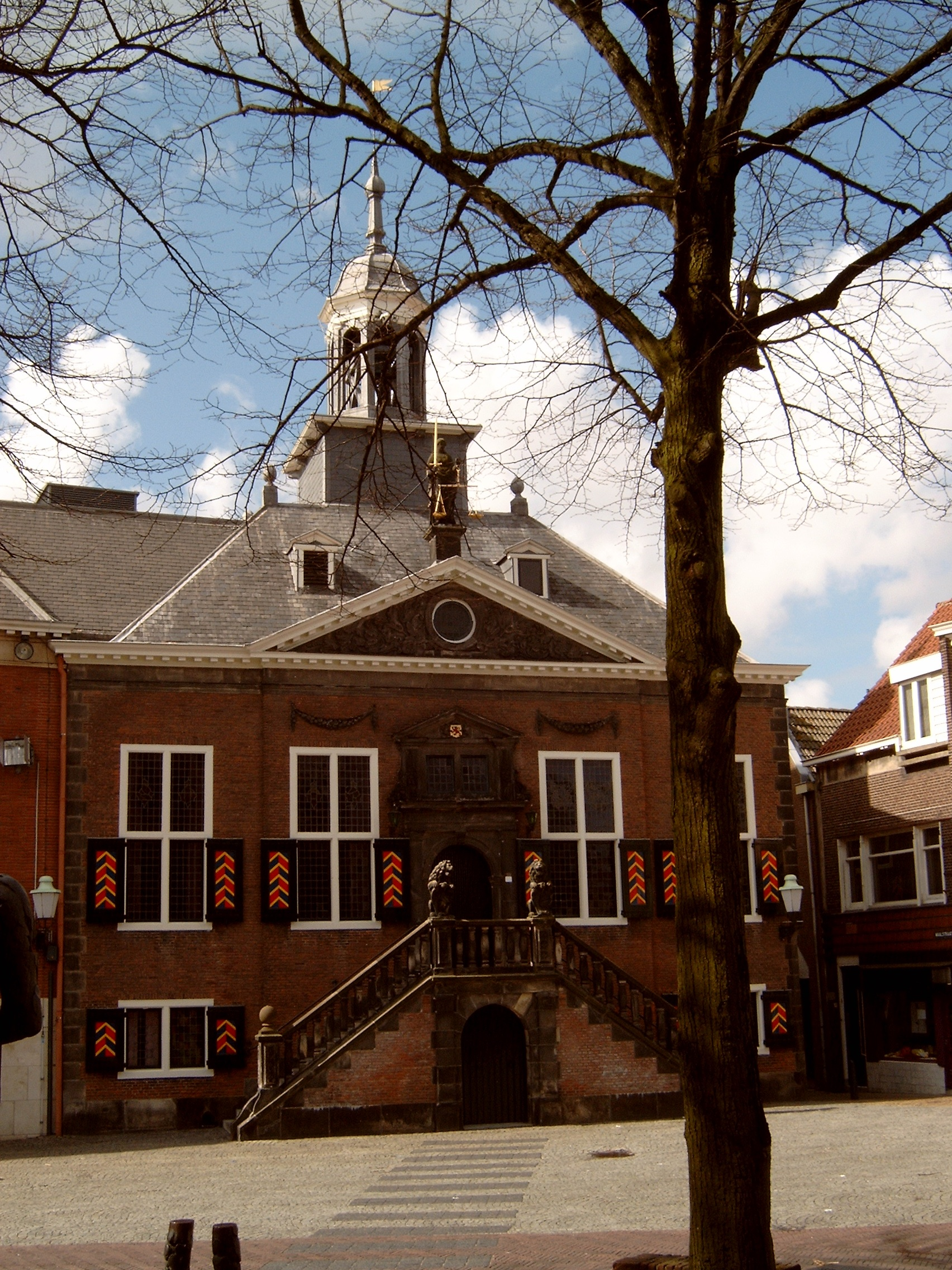 Vlaardingen, former townhall